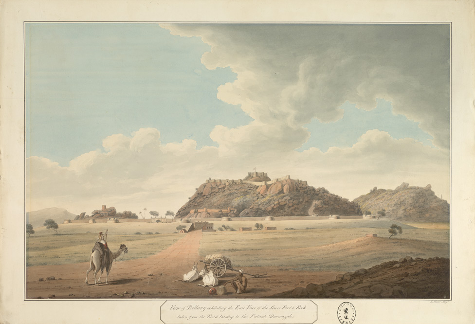 View of Bellary, showing the E. face of the lower fort and rock; a camel and bullock cart in the foreground. Key attached